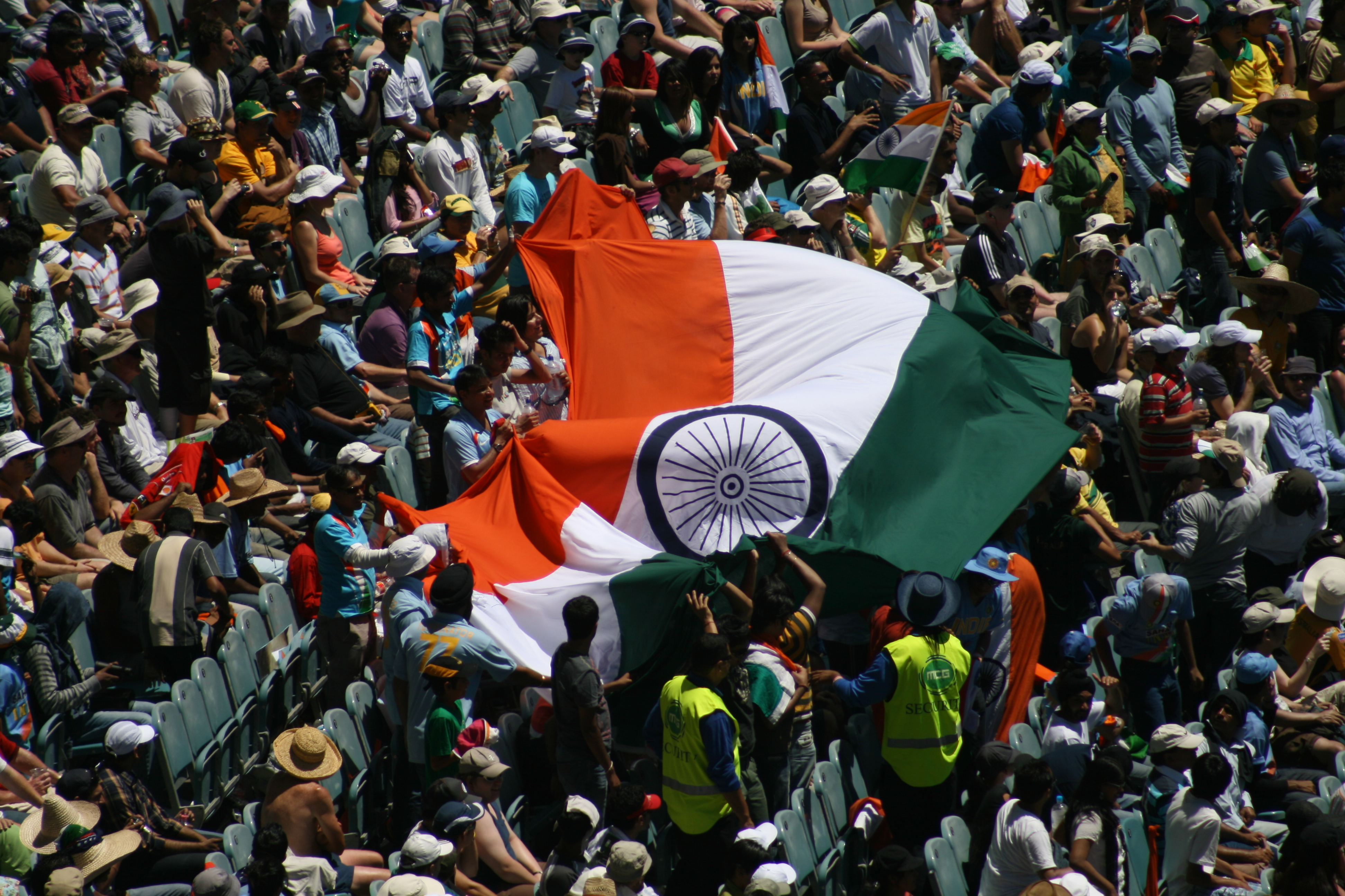 Fans wave the Indian flag during a match against Australia